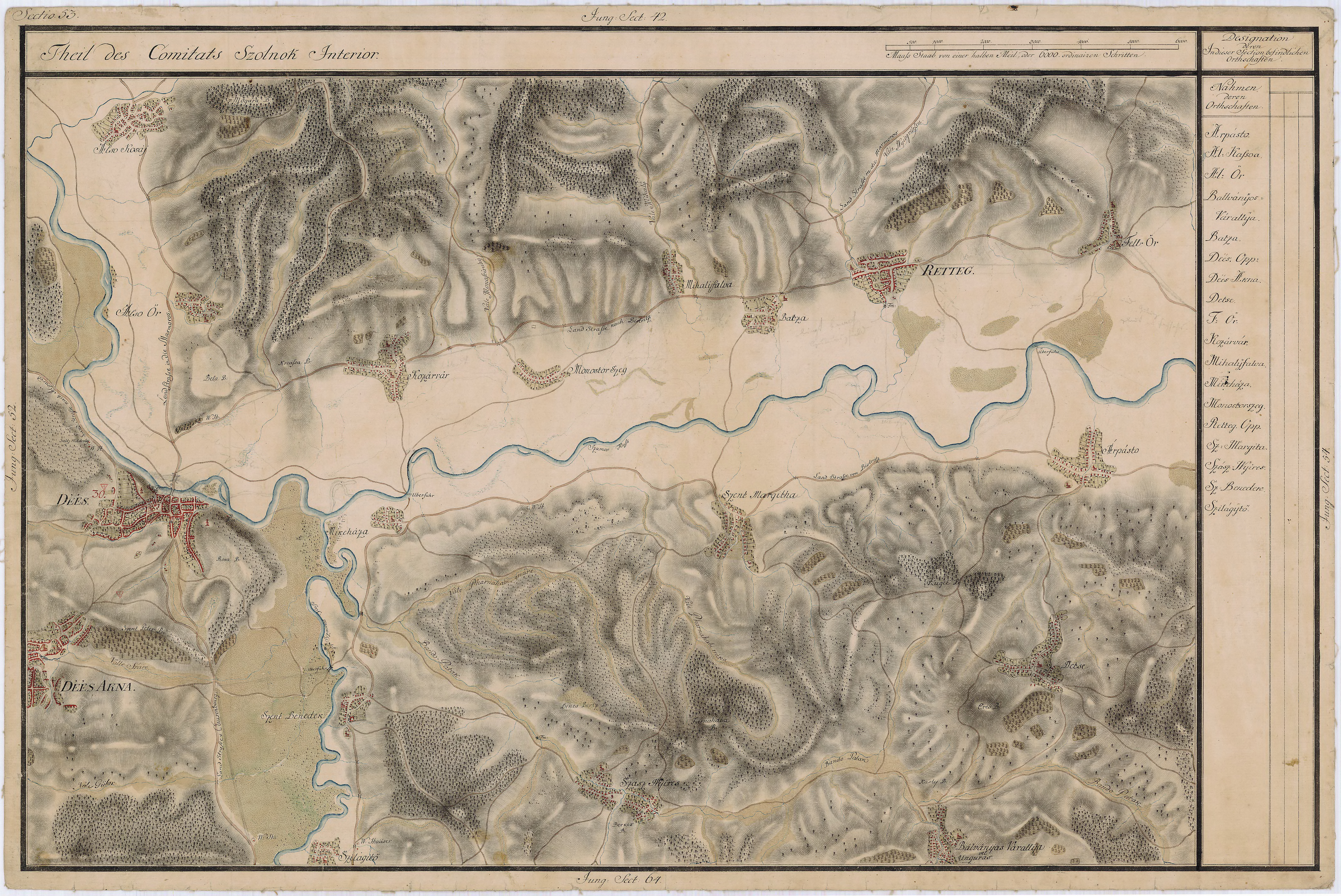 Grand Duchy of Transylvania, 1769-1773. Josephinische Landaufnahme pg.053